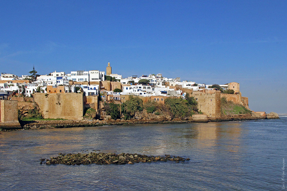 Oudaya Kasbah in Rabat, Morocco